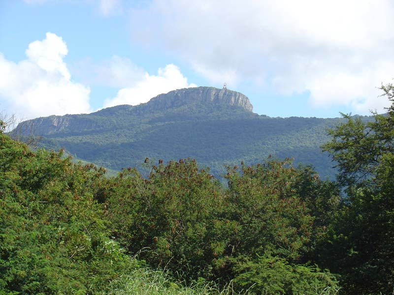 Hanglip promontory and radar station in the central Soutpansberg, as seen from Louis Trichardt. At 1,719 m, it is 700 m above the town, and one of the range's prominent hights. Flame thorns grow in the foreground.